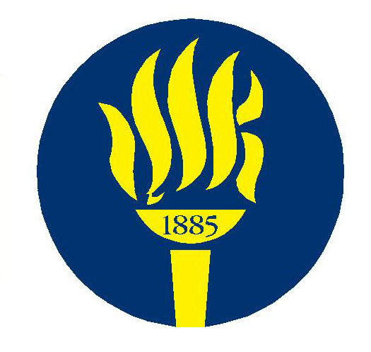 FMV logo